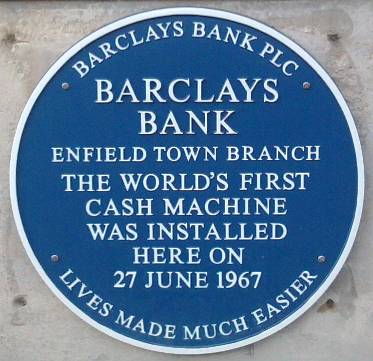 Plaque commemorating installation of worlds first ATM machine